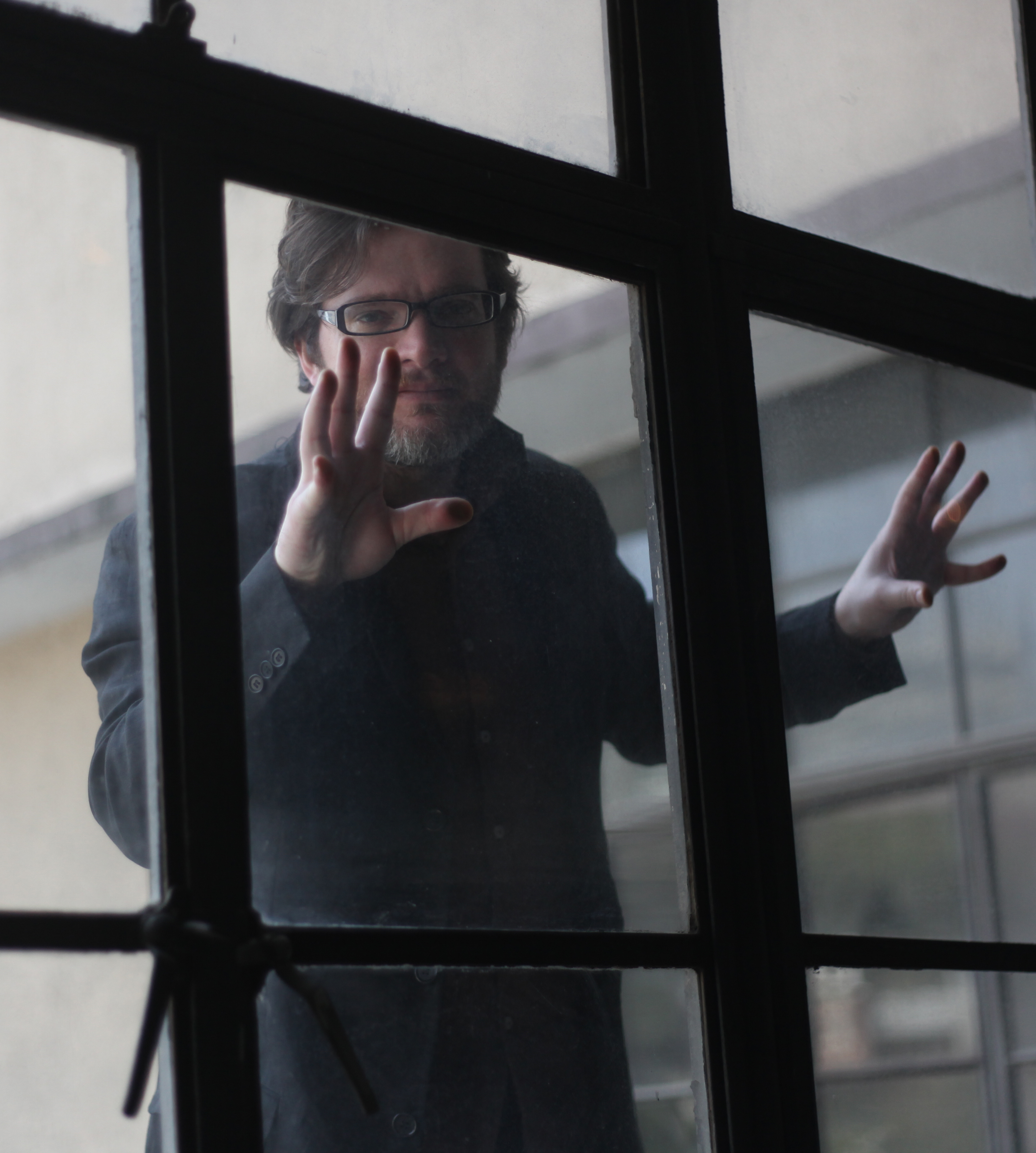 Thomas Charvériat Director of island6 Arts Center Shanghai, March 2009